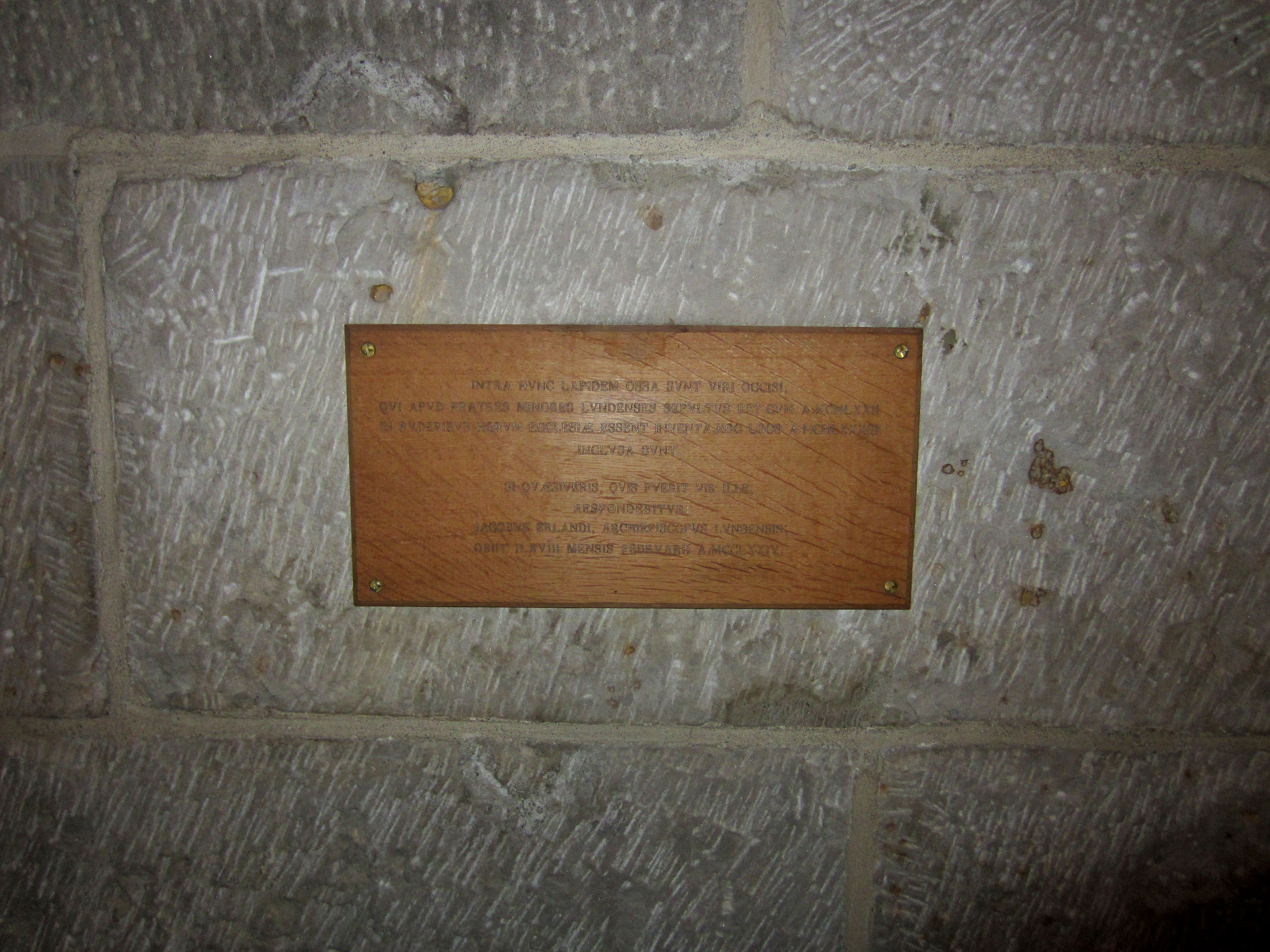 Archbishop Jacob Erlandsens grave in Lund Cathedral